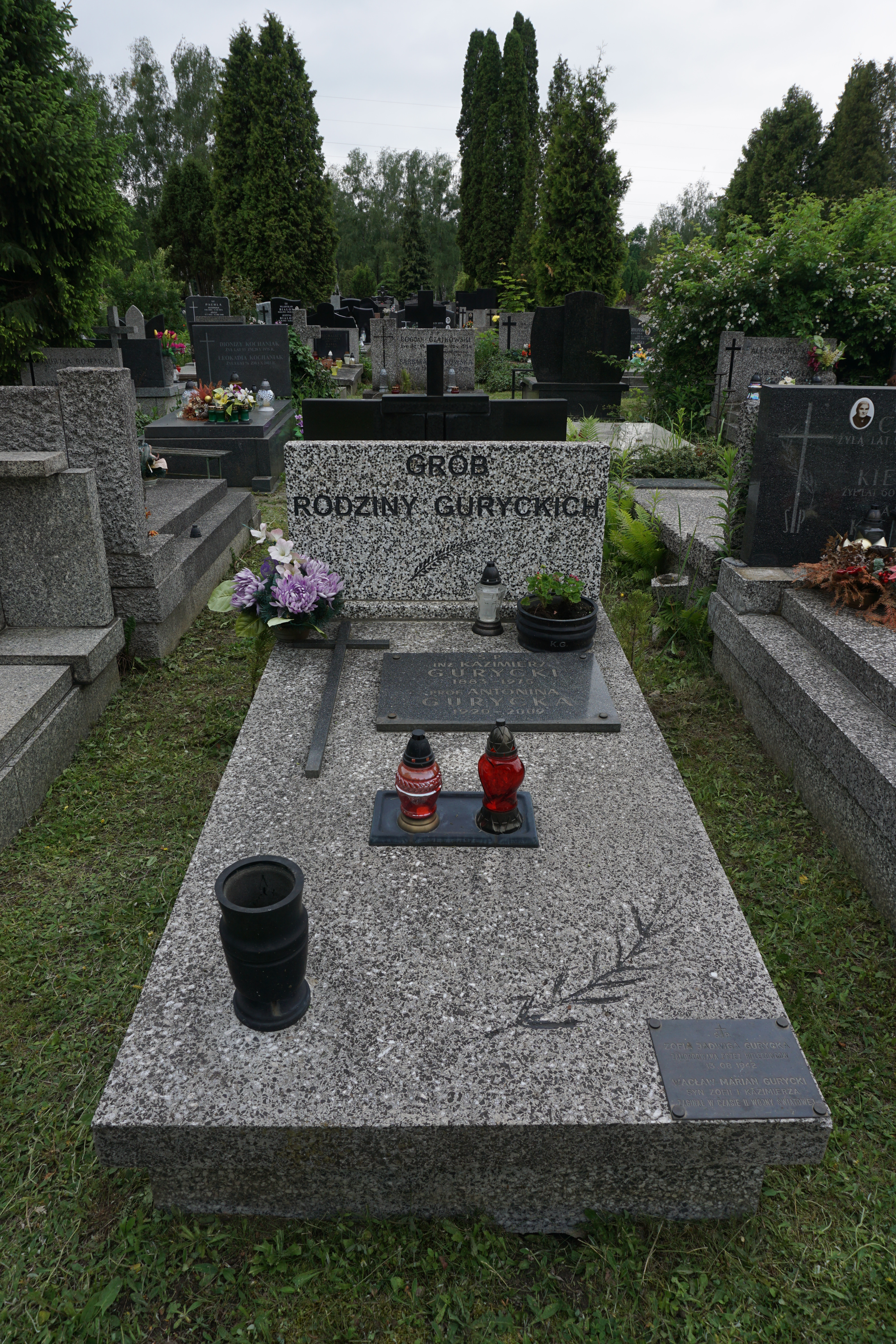 The grave of Antonina Gurycka at the North Municipal Cemetery in Warsaw (section E-X-7, row 1, grave 4)